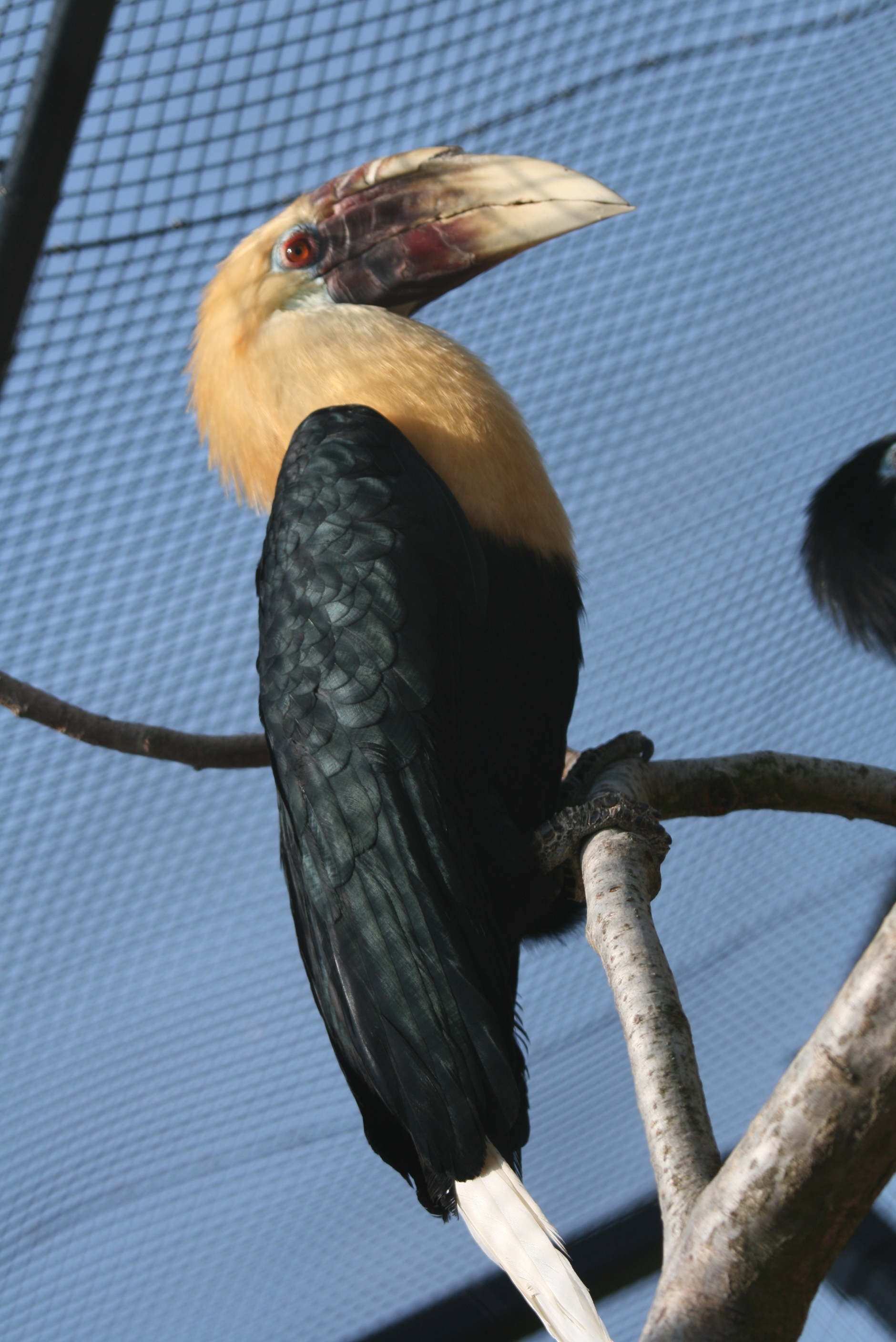 Blyth's Hornbill (Aceros plicatus), Parc Paradisio, Hainaut, Belgium.